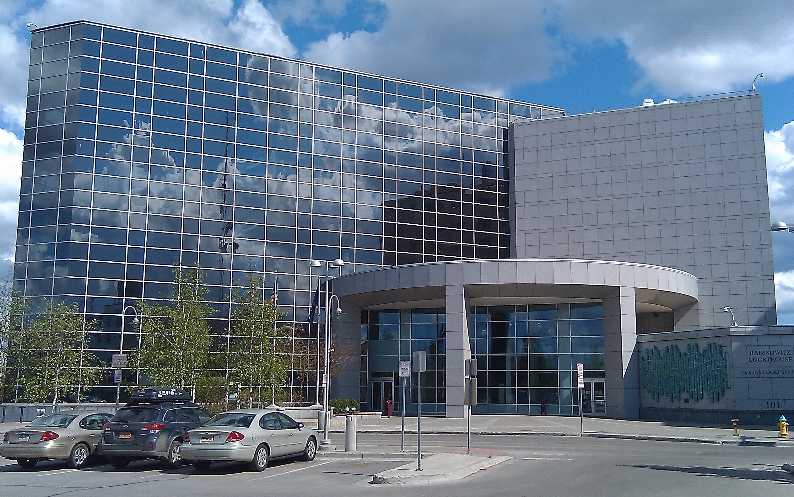 The Rabinowitz Courthouse, located at 101 Lacey Street in downtown Fairbanks, Alaska. Home to state trial courts as well as the chambers of Alaska Supreme Court associate justice Daniel E. Winfree. Named for Jay Andrew Rabinowitz (1927-2001), the longest-serving member of the Alaska Supreme Court.